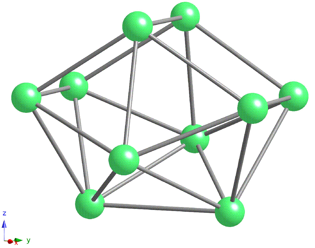 B10 polyhedron in the Sc0.83–xB10.0–yC0.17+ySi0.083–z crystal structure.